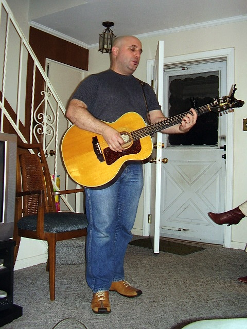 Jim Infantino performing at a house concert